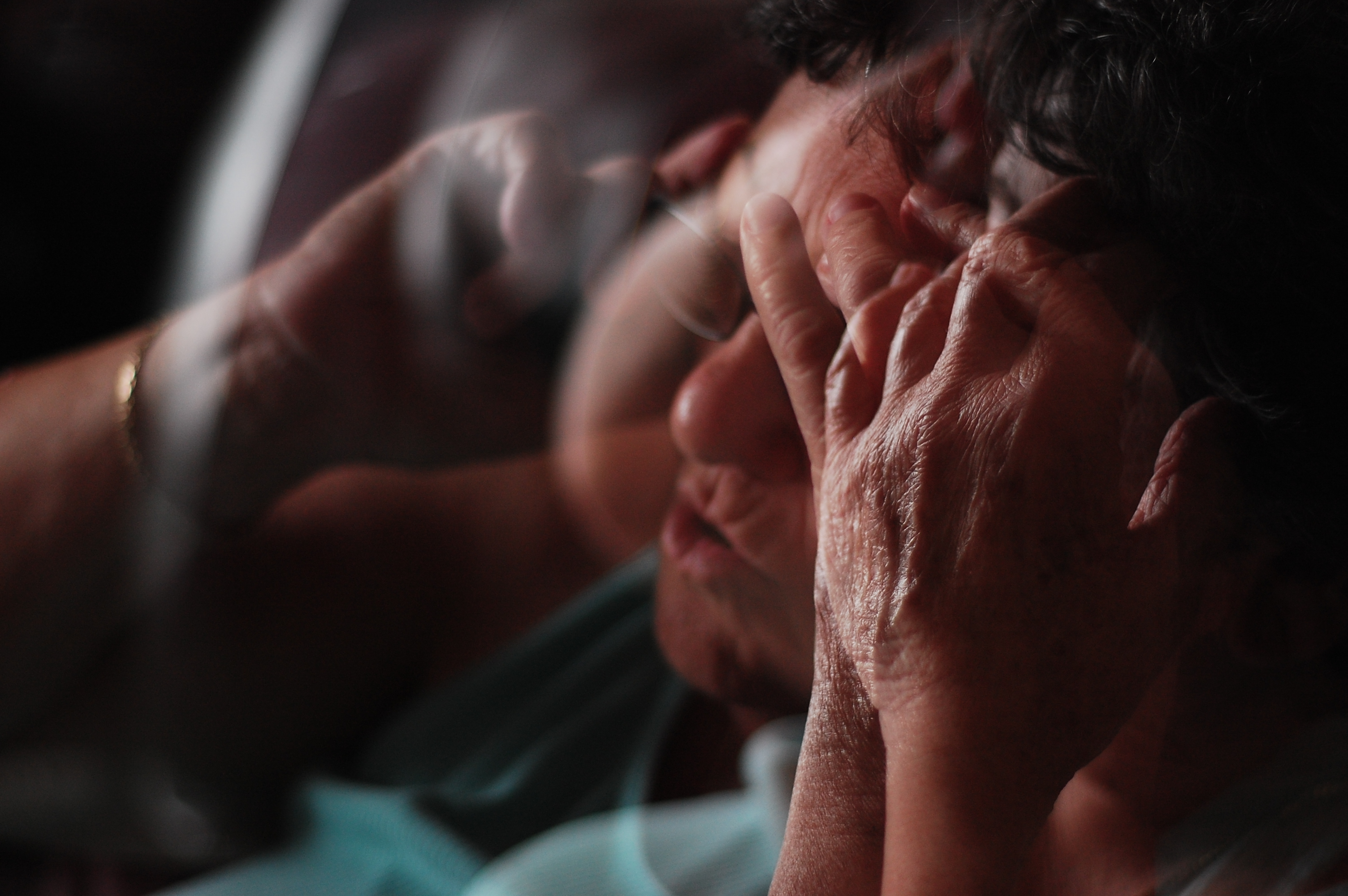 stressed and worried